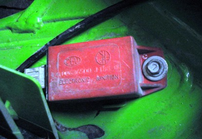 analog electronic ignition CDI type racing of a Kawasaki Kx 125'88